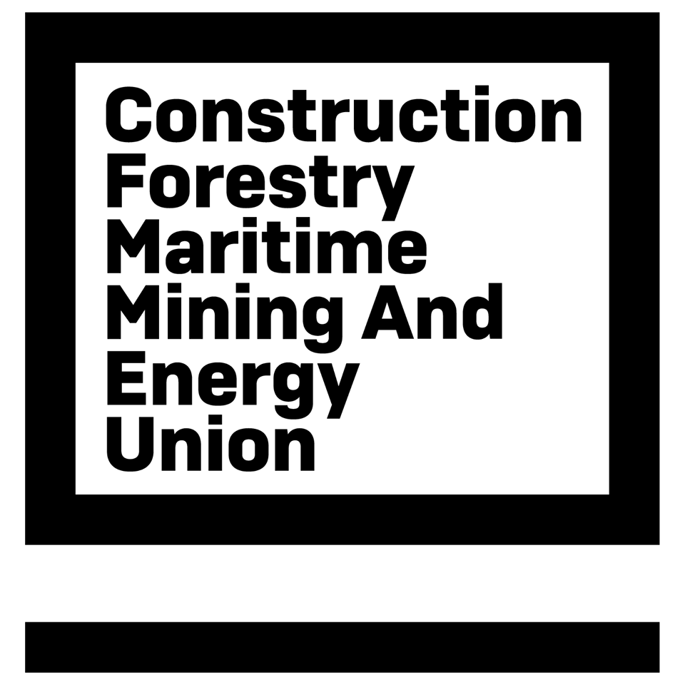 New logo of the CFMMEU following merger with the Maritime Union of Australia, released in 2018.